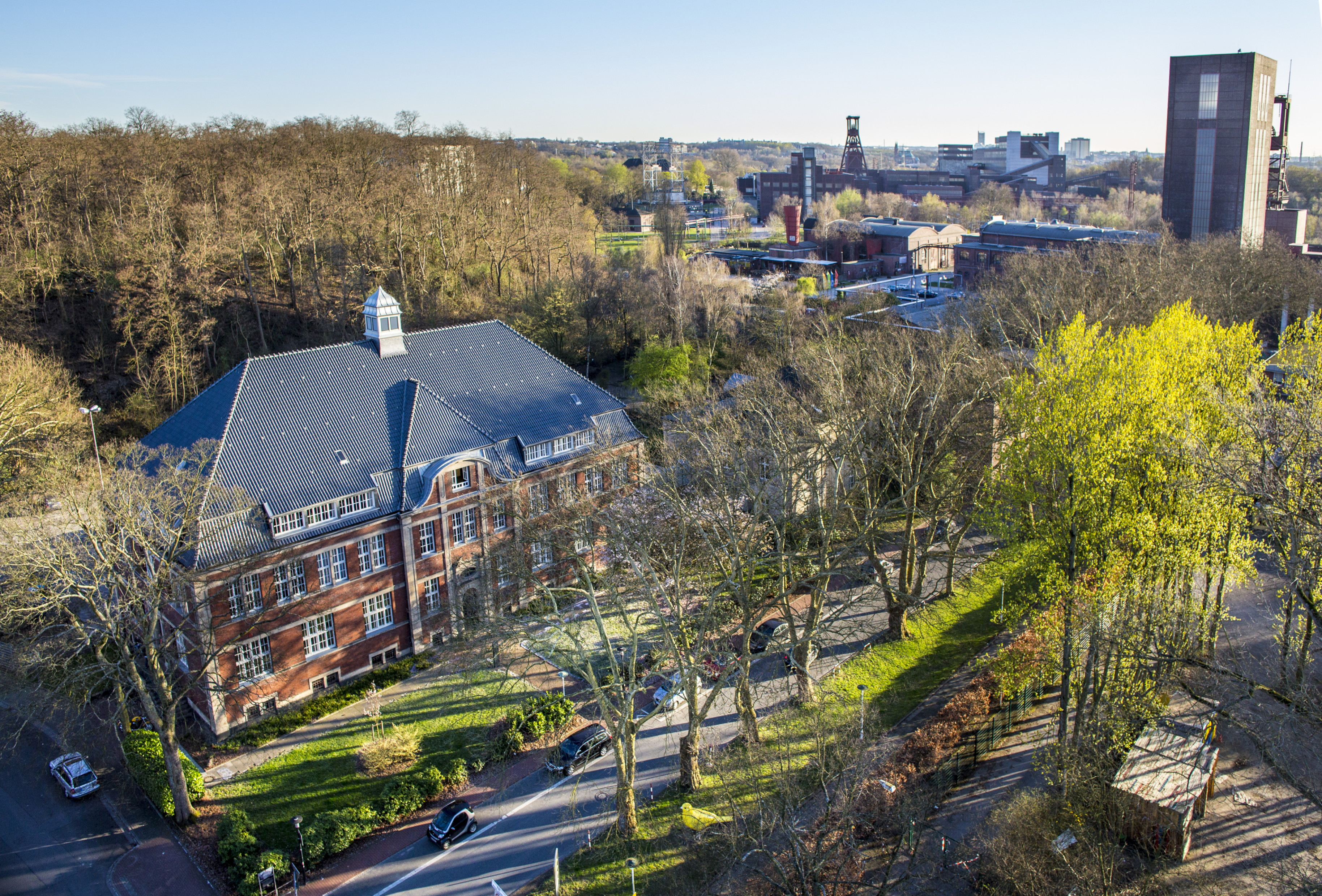 Built in 1906, the Directorate was up to the closure of the Zollverein colliery in 1986 head office and seat of administration. Since 2013, the building is seat of the Zollverein Foundation.